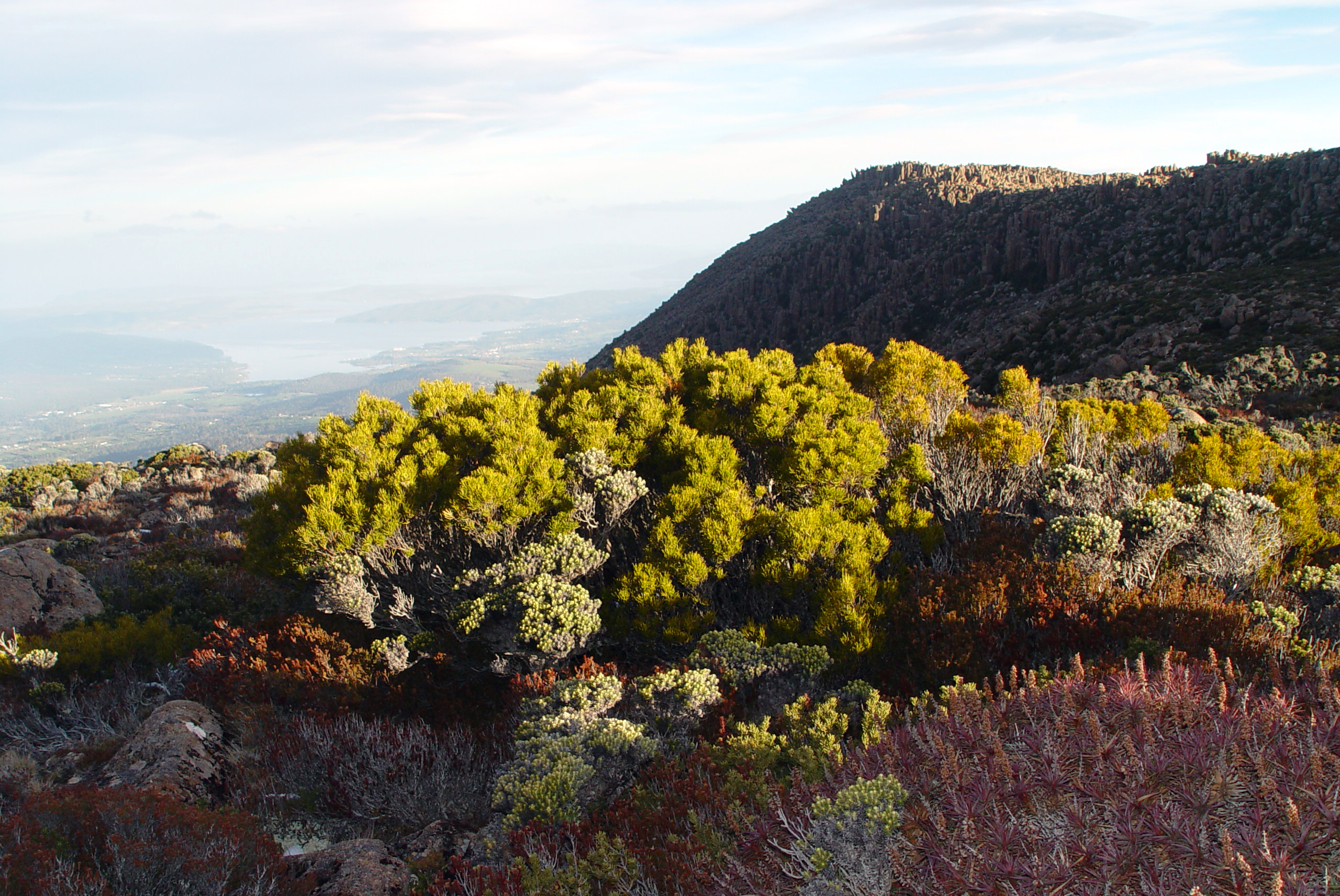 Near the pinnacle of Mount Wellington, Hobart area, Tasmania